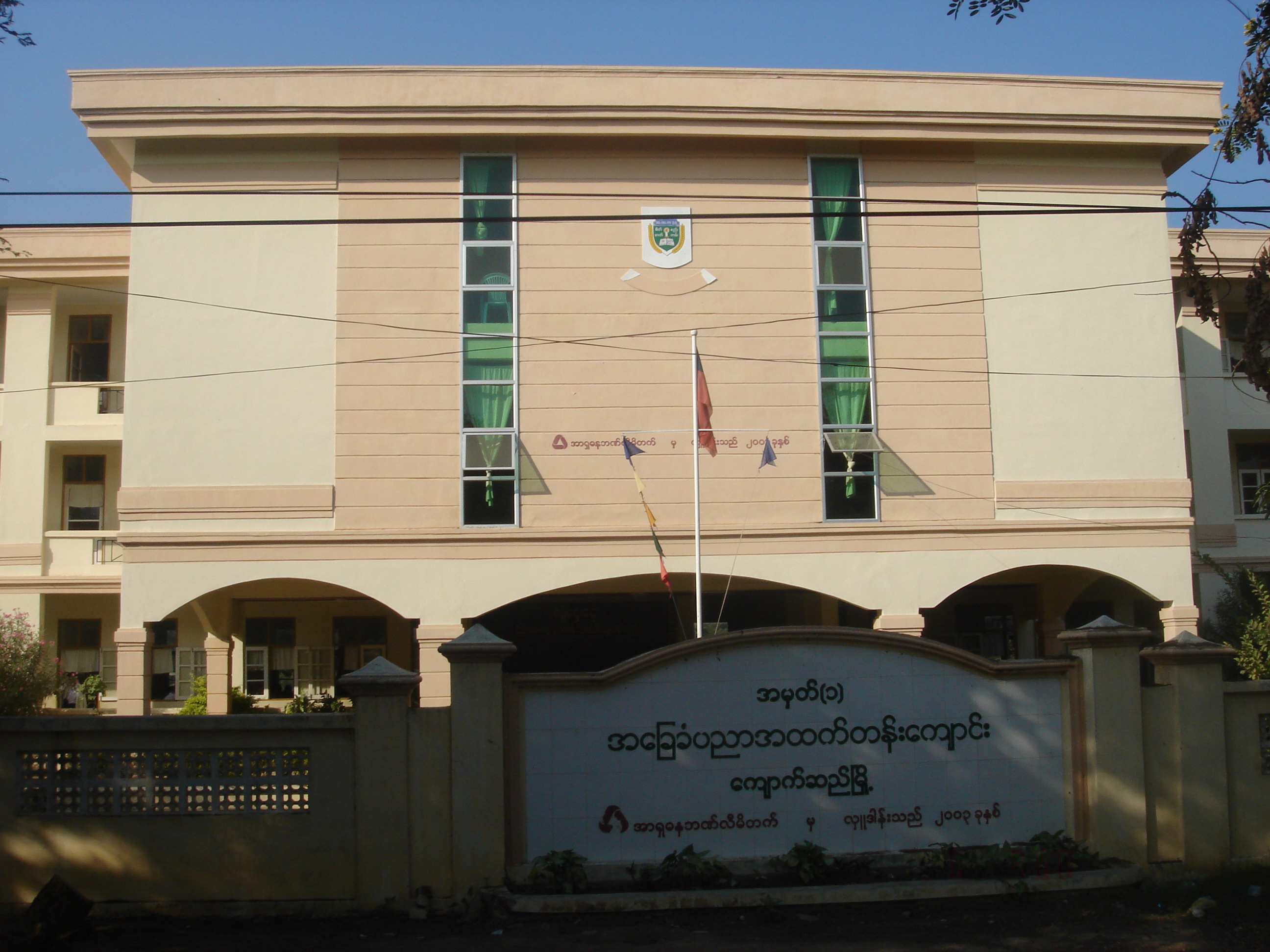 Photo of No.1 Basic Education High School, Kyaukse